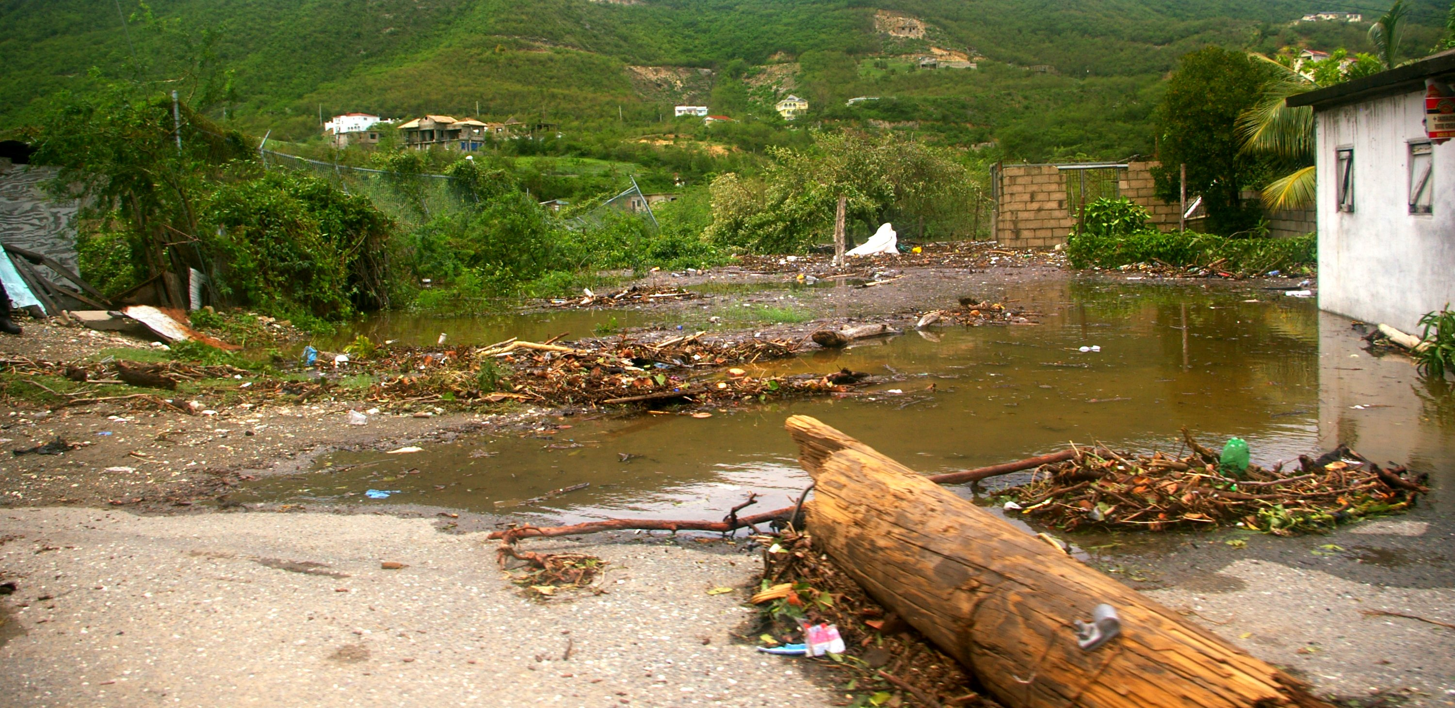 Damage from Hurricane Dean in Bull Bay, Jamaica.